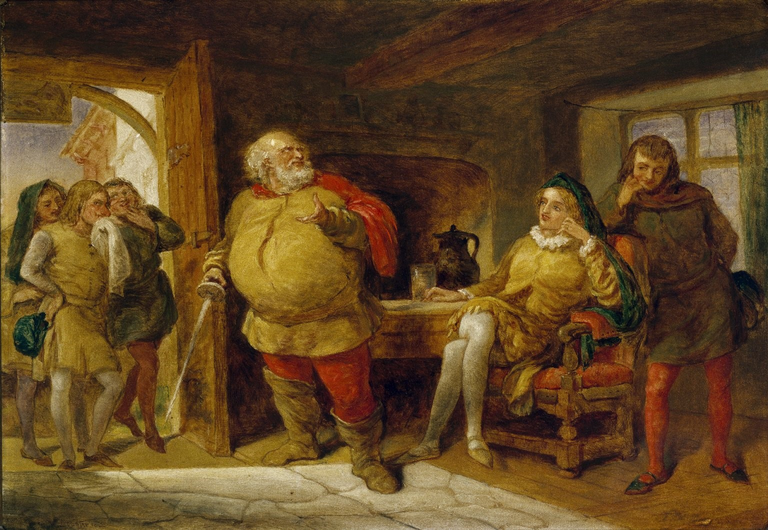 Peto, Bardolph and Gadshill at left; Falstaff in the centre; Hal and Poins at right in the Boar's Head Tavern. Illustration to Henry IV, Part 1, Act 2, scene 4. Unknown artist, c.1840